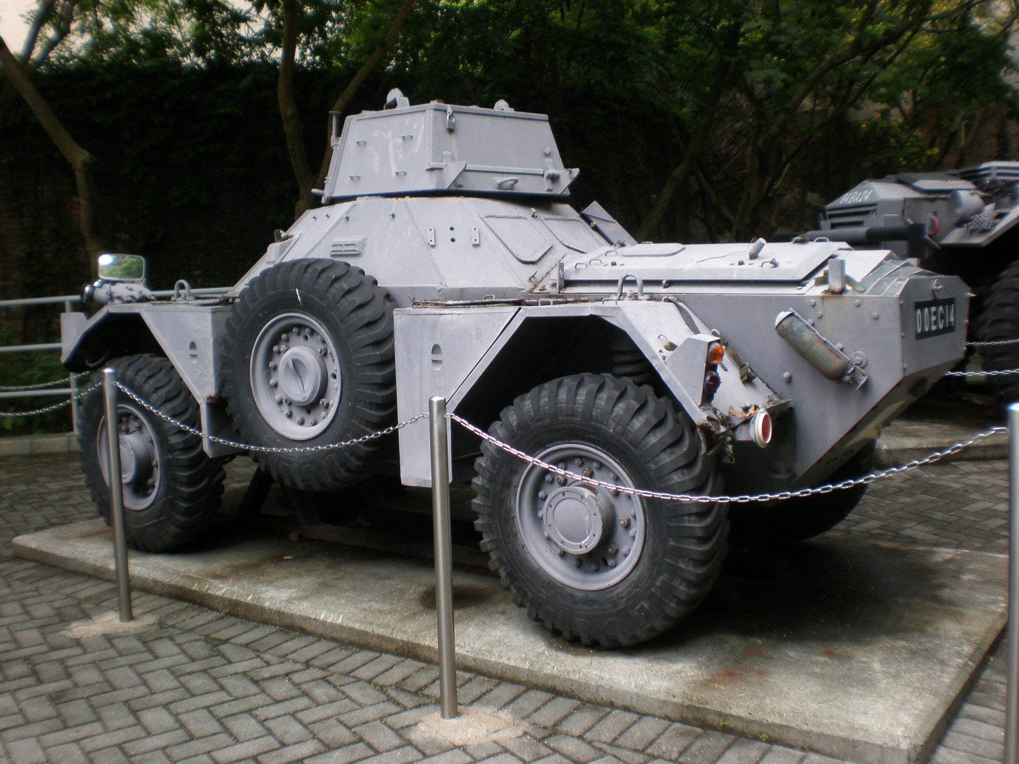 A Ferret Mk 2 Scout Car originally belonging to the Royal Hong Kong Regiment. On display at the Hong Kong Museum of Coastal Defence.